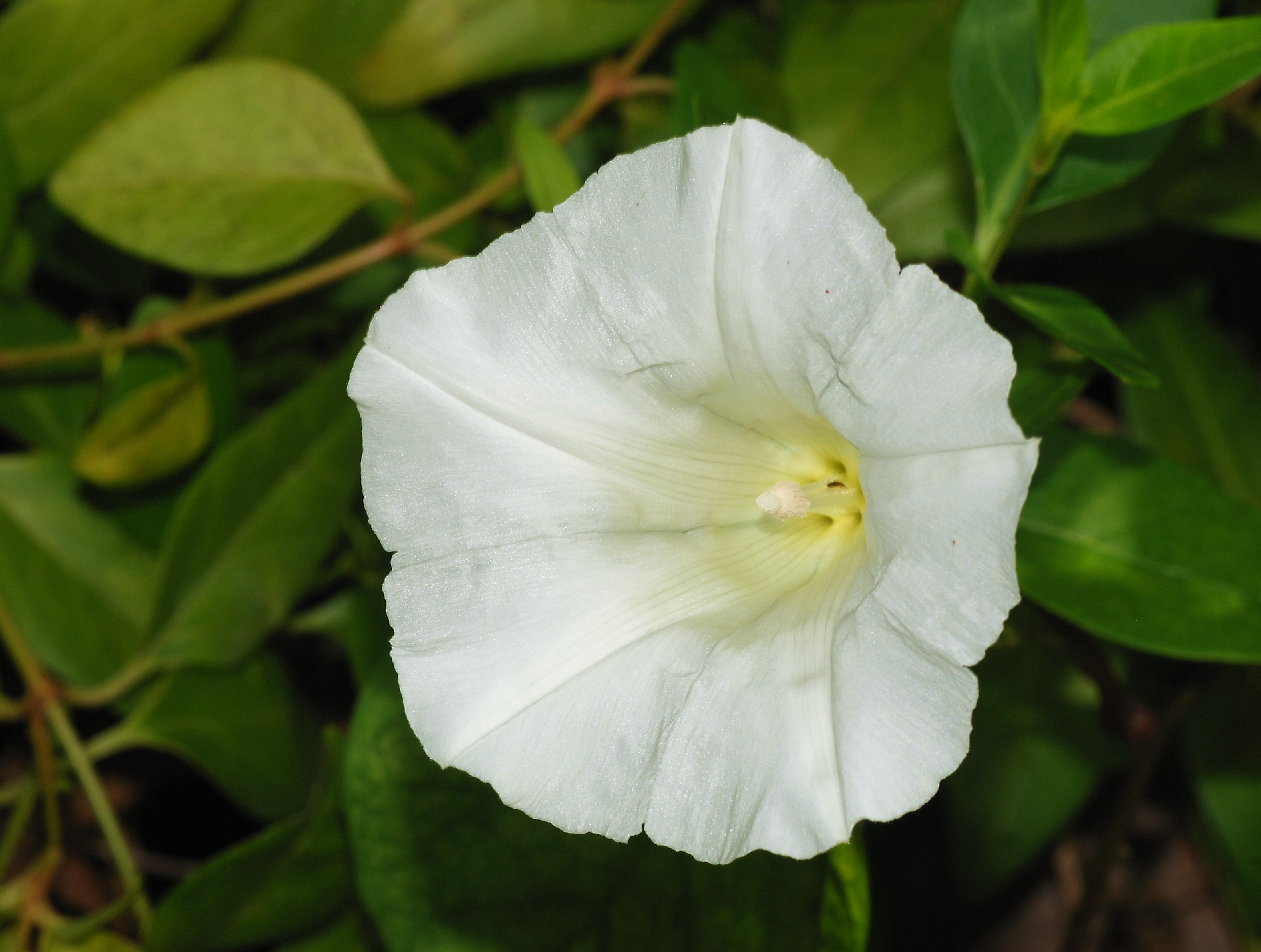 A flower of Calystegia sepium (Greater Bindweed).